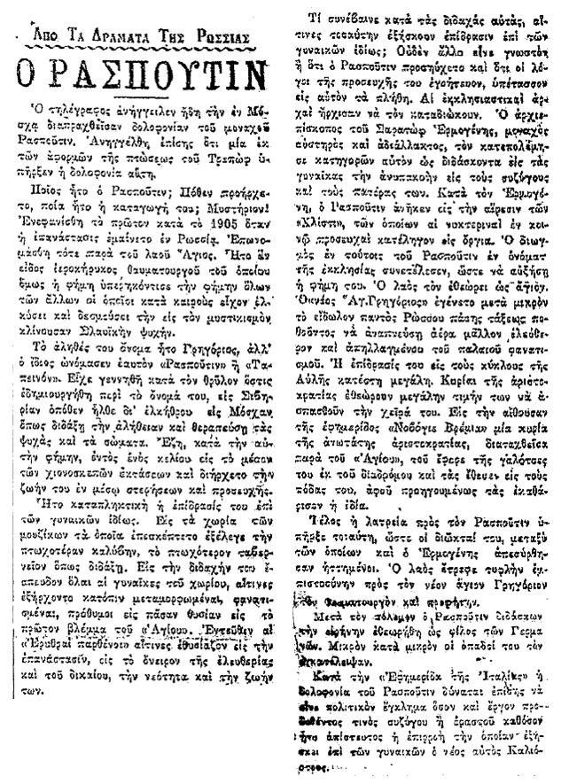 Excerpt from the Greek newspaper Empros (January 12, 1917) about Grigori Rasputin's anouncement of death and details for his life.